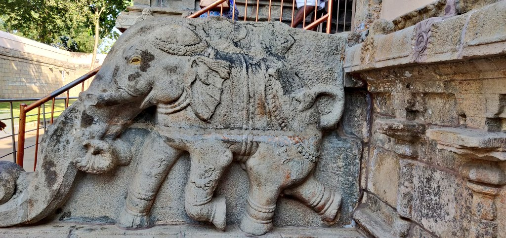 The temple was built by the Pandyan King Vallabadevan who was a devotee of Sri Periazhwar in the ninth century CE. However as per legend and folklore the temple predates the Sri Ranganathaswamy Temple, Srirangam, and is one of the oldest temples in the city. Some attribute the temple to be of 5th century CE.